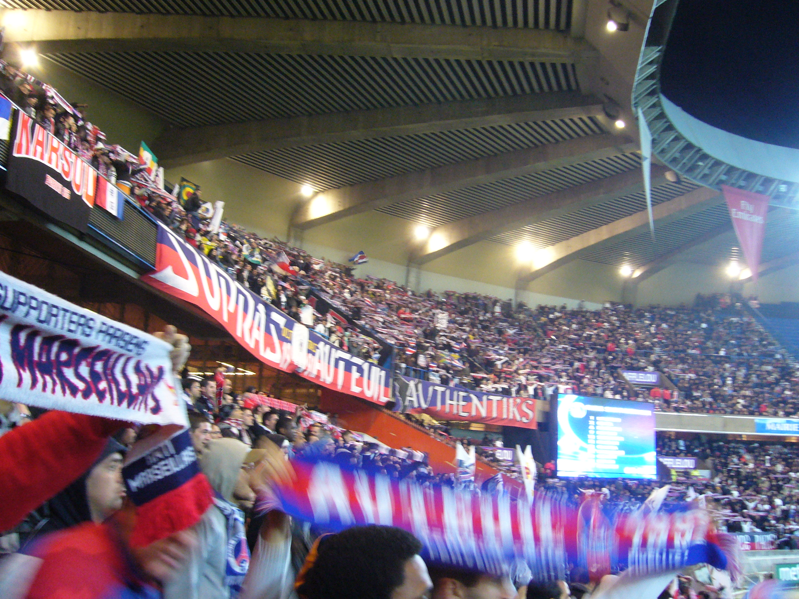 Virage Auteuil lors de PSG 0-0 Kayserispor Paris SG 0-0 Kayserispor, Parc des Princes, 2 October 2008, Paris.